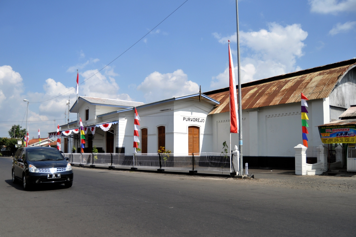 Purworejo train station in Purworejo, Central Java.